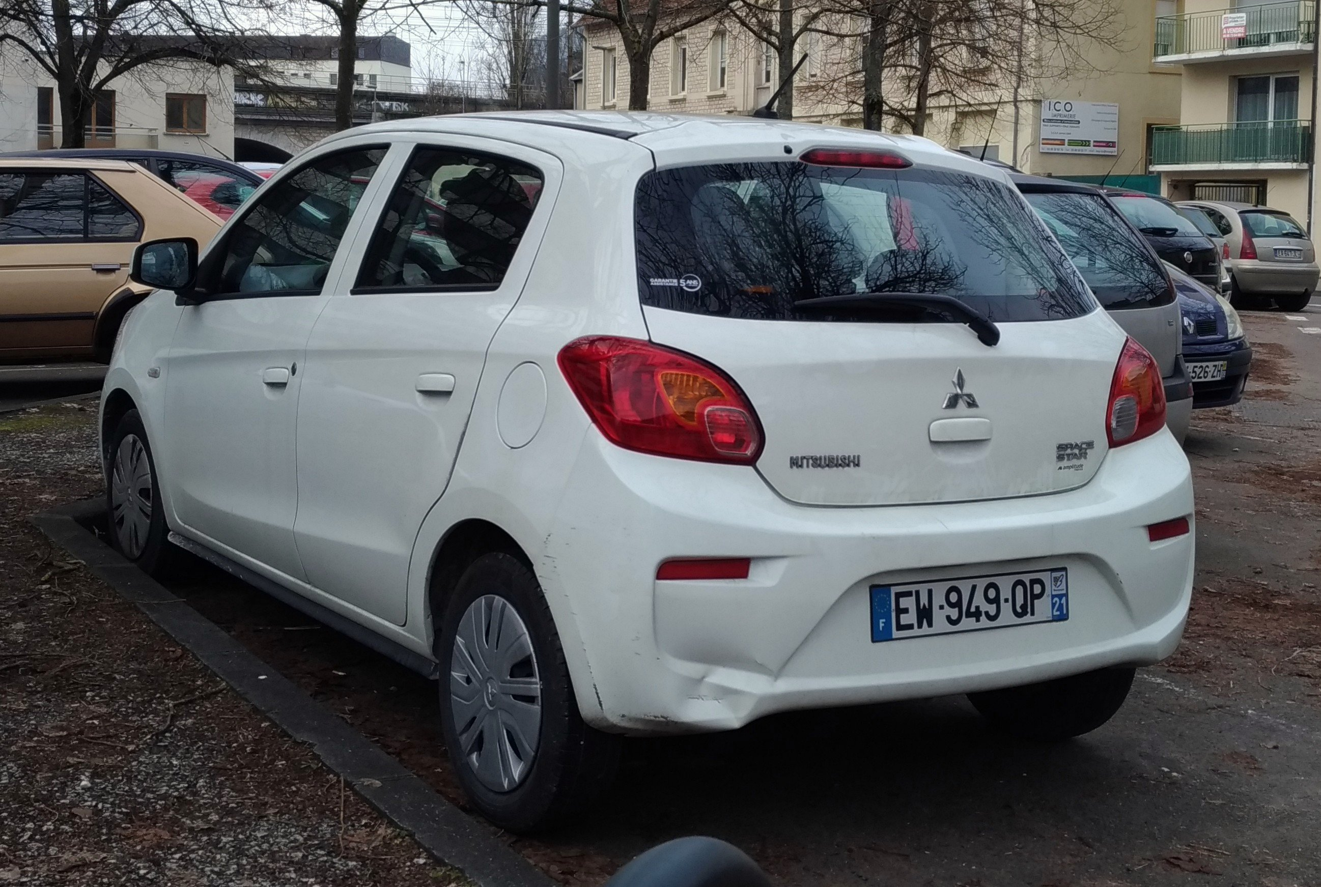 Mitsubishi Space Star